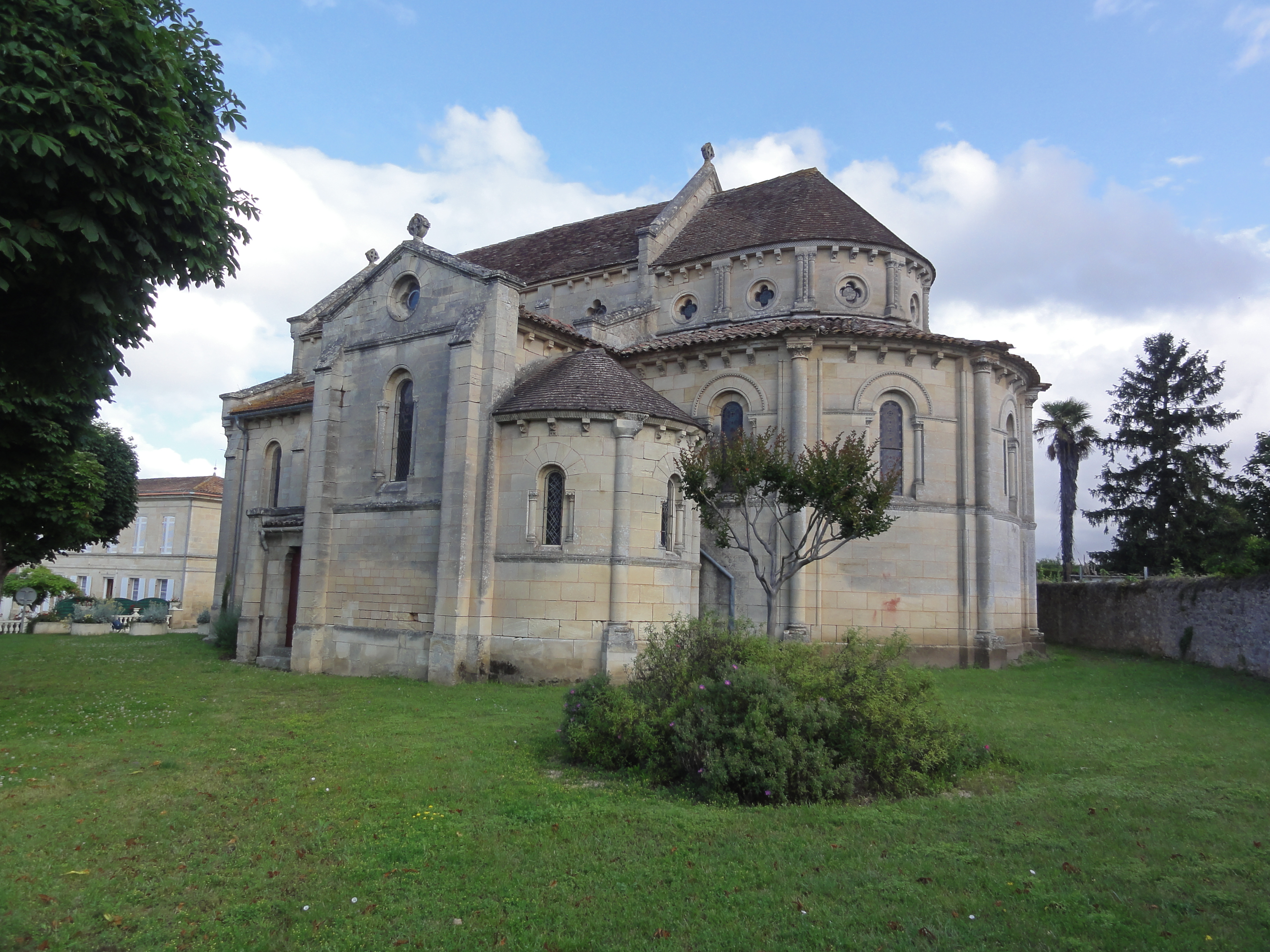 Villeneuve (Gironde) église, chevet